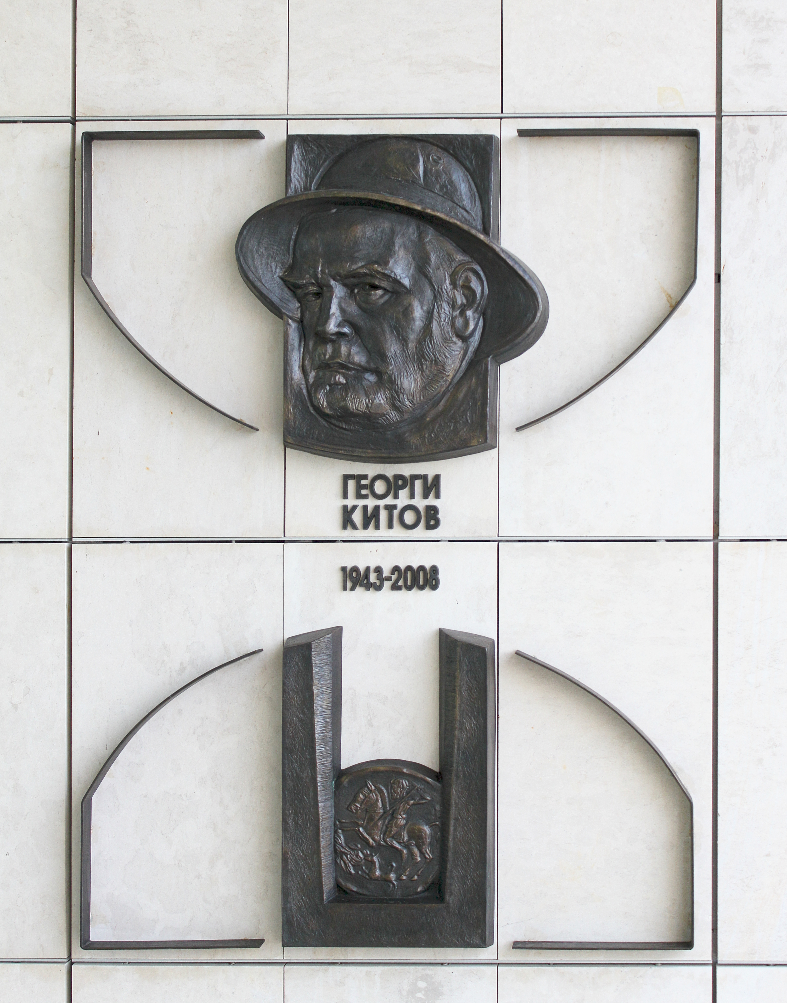 Museum Center Thracian Art in the Eastern Rhodopes, Aleksandrovo, Haskovo District, Bulgaria